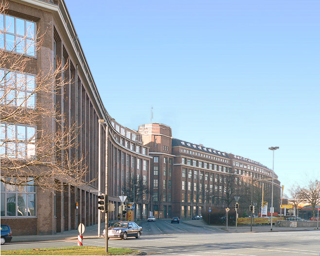 Continental, Hannover, Germany.